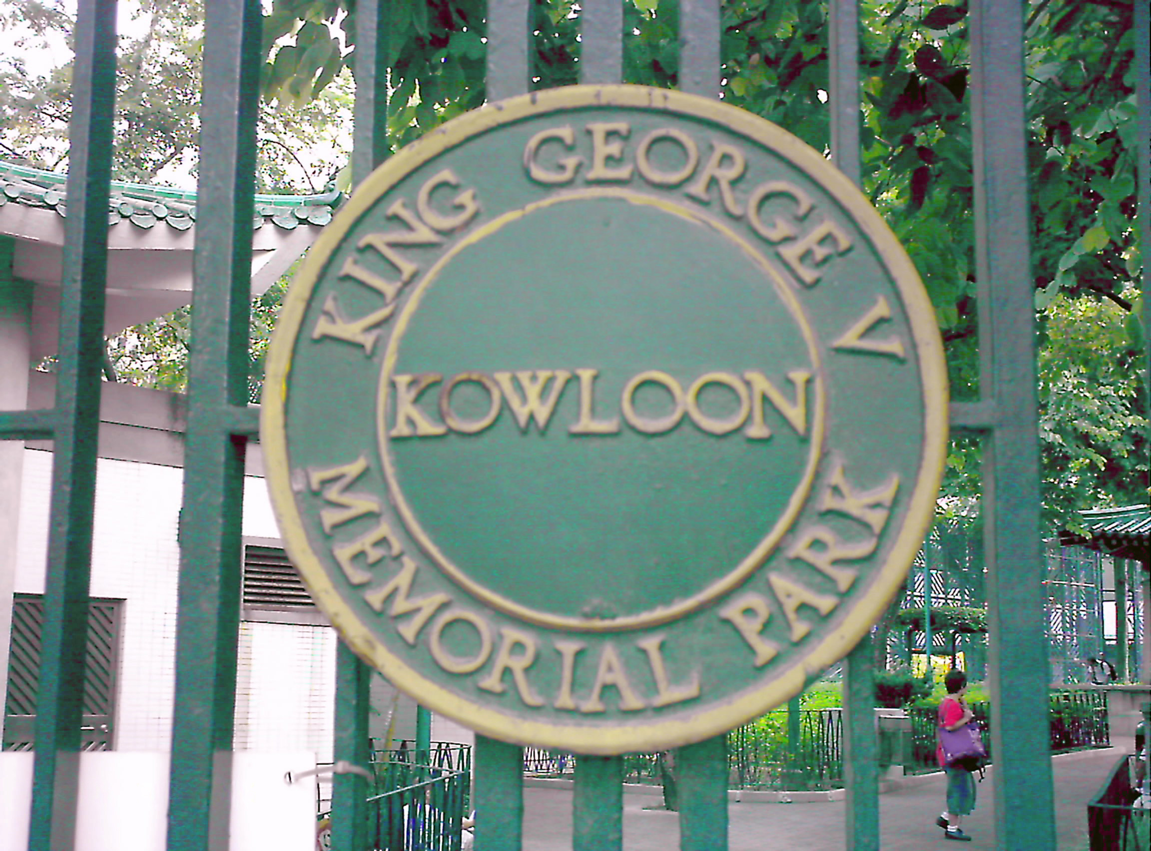 King Geoge V Park, Kowloon